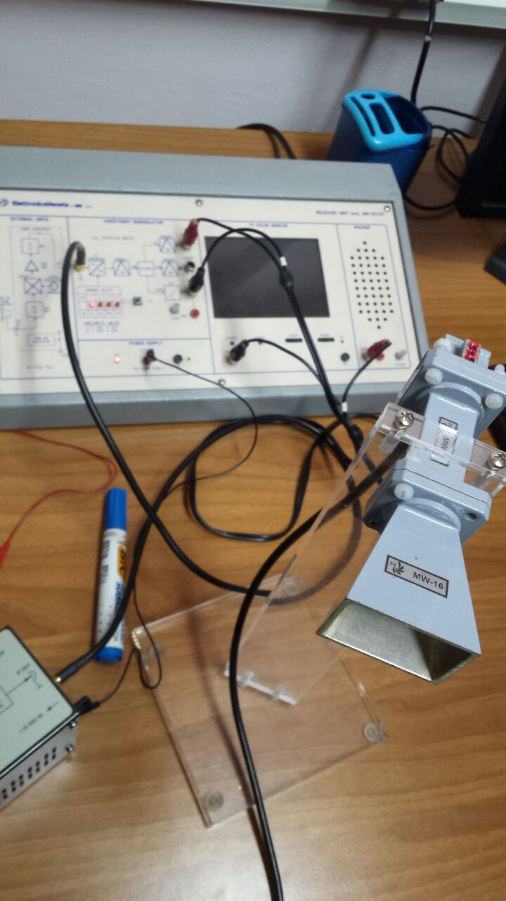 Pamje nga laboratori i lendes Inxhinieria e Antenave, UPT